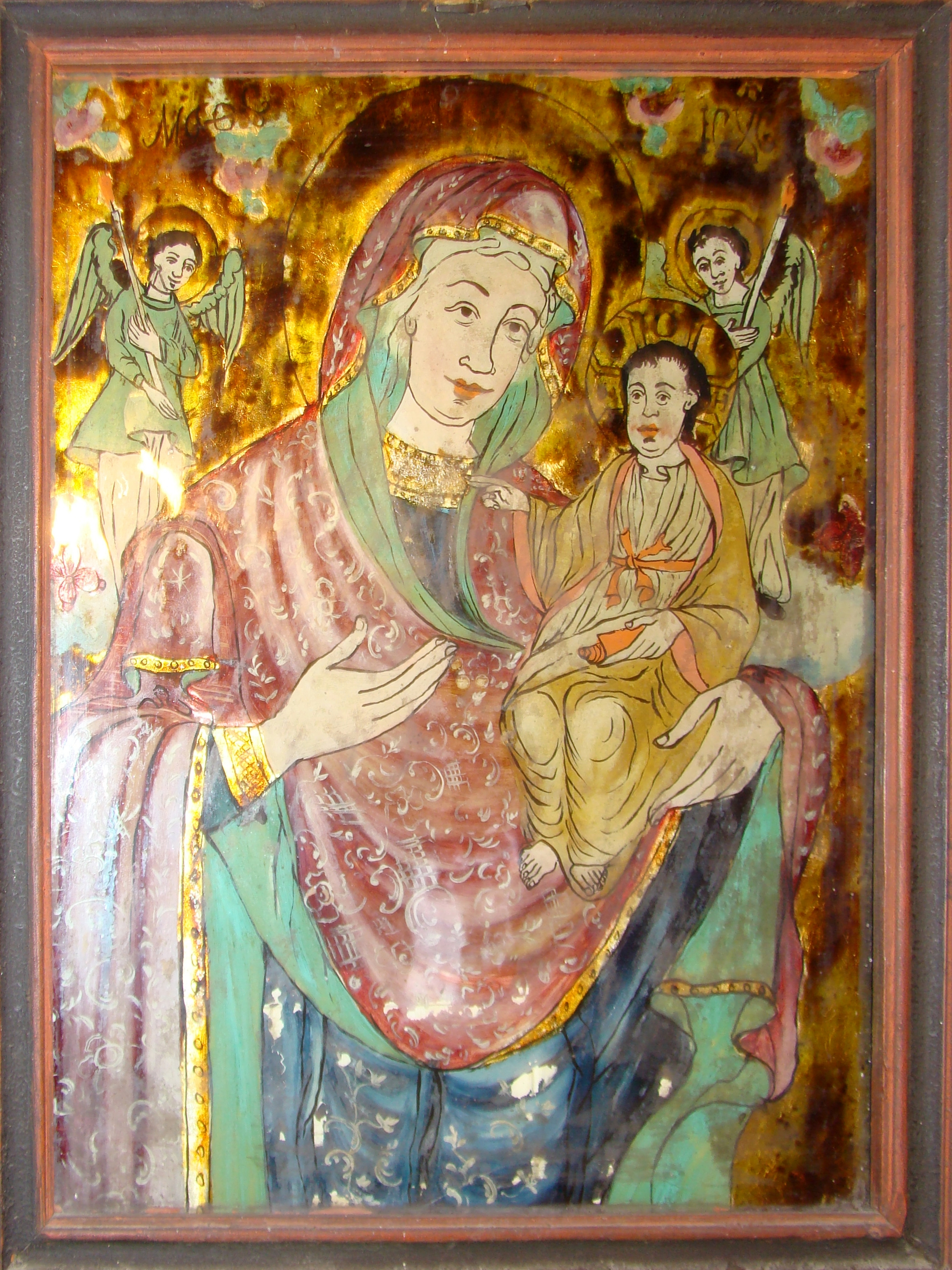 Wooden church in Aghireșu, Cluj county, Romania